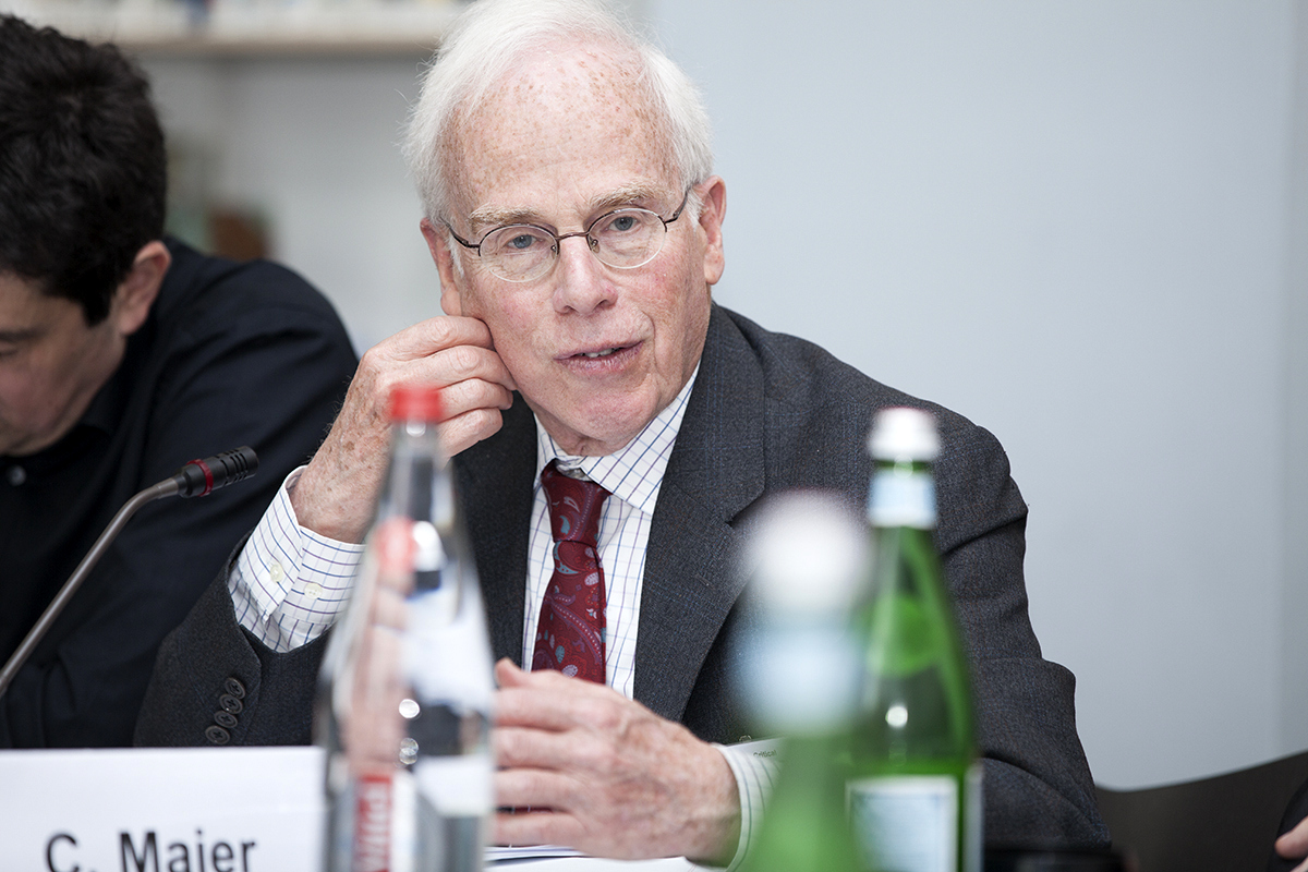 Charles S. Maier, Professor of History at Harvard University, at the Luxembourg Institute for European and International Studies conference Arno J. Mayer – Critical Junctures in Modern History, 10-11 May 2013, Casino Luxembourg.